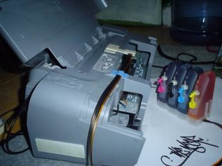 Infusing Canon Pixma printer